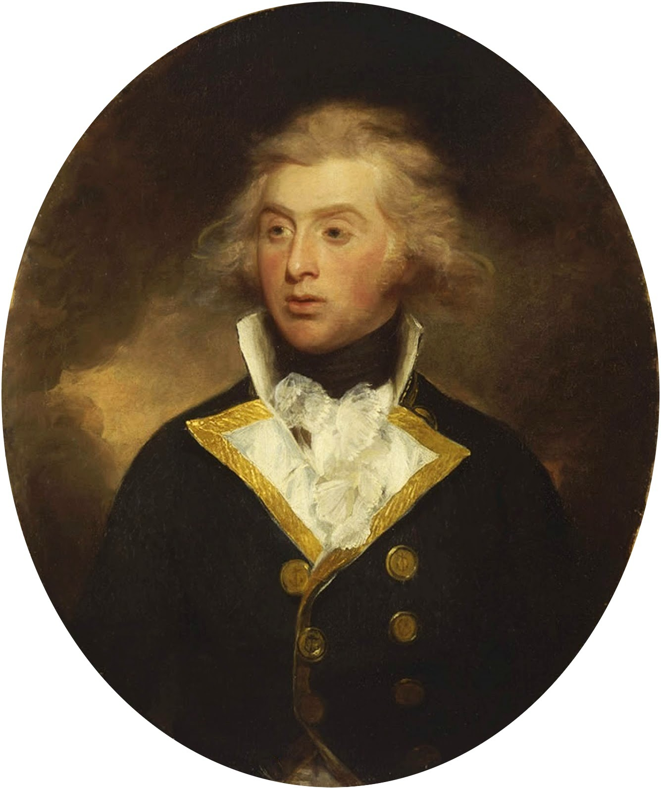 Caption from the museum's website A half-length portrait to the left, in a painted oval, wearing captain's full-dress uniform, 1787-95. He was promoted to captain at the age of 22 and fought at the Battle of the Glorious First of June in 1794. He received a gold medal for his conduct at the Battle of San Domingo in 1806, took part in the Rio and Copenhagen expeditions of 1806-07, attacked Rochefort in 1808, was Commander-in-Chief at the Cape of Good Hope in 1808 and reduced Java in 1811. His last active post was as commander-in-chief of the Mediterranean fleet and he was present at the Bombardment of Acre in 1841. From that year until his death he was Governor of Greenwich Hospital, in the rank of Admiral. The artist trained as a lawyer before entering the Royal Academy Schools, London, in 1772 where he may have studied with Johan Zoffany. He first exhibited at the Royal Academy in 1776, and throughout his career, he produced competent portraits since he had no shortage of clients. In 1793, he was named portrait painter to Queen Charlotte and undertook a number of royal commissions. His straightforward style perfectly suited the stolid and conventional taste of the Royal family. In 1795, John Opie described Beechey's pictures as 'of that mediocre quality as to taste & fashion, that they seemed only fit for sea captains & merchants'.